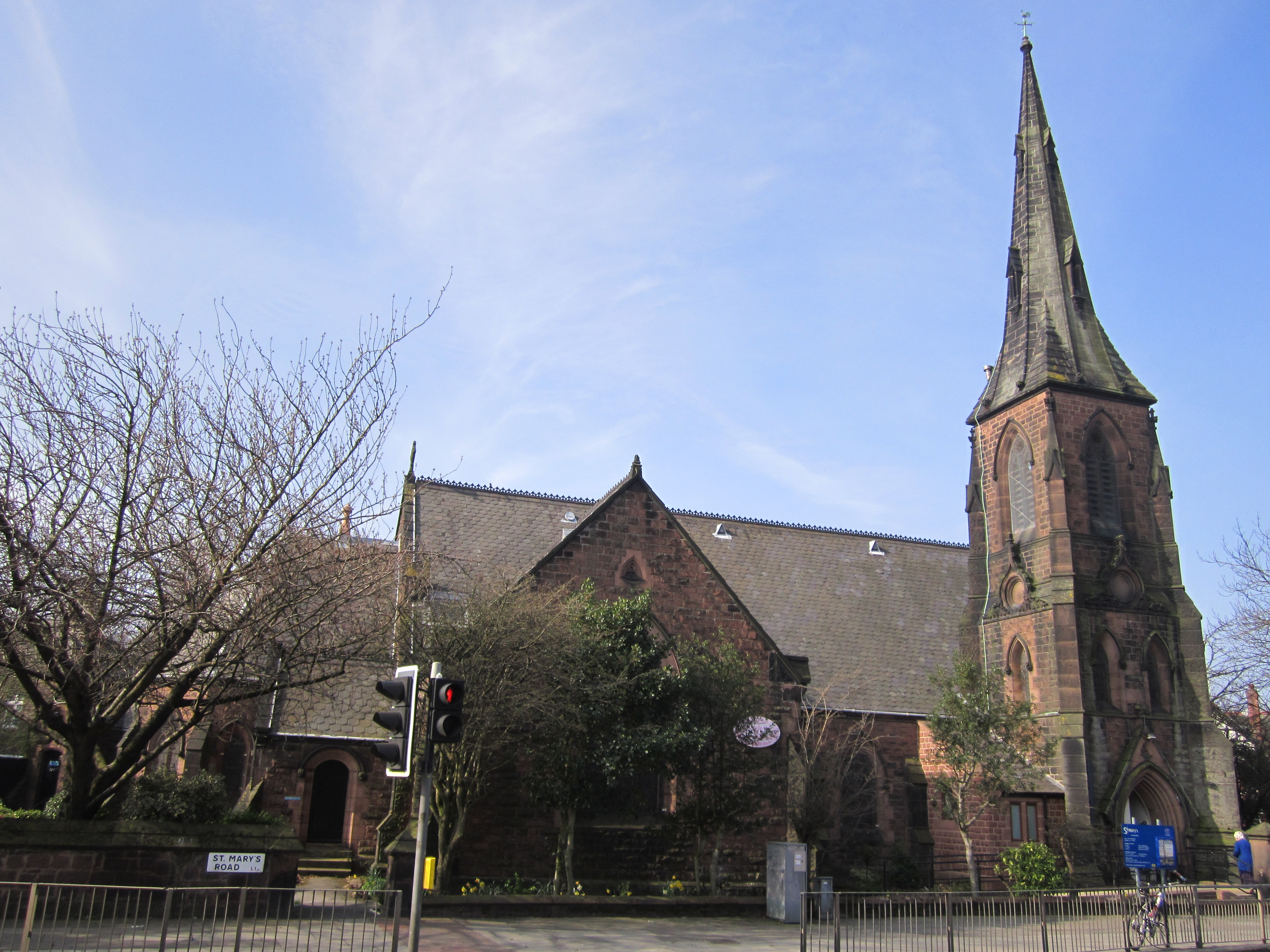 St Mary's parish church, Grassendale, Liverpool, England, seen from the east from St Mary's Road